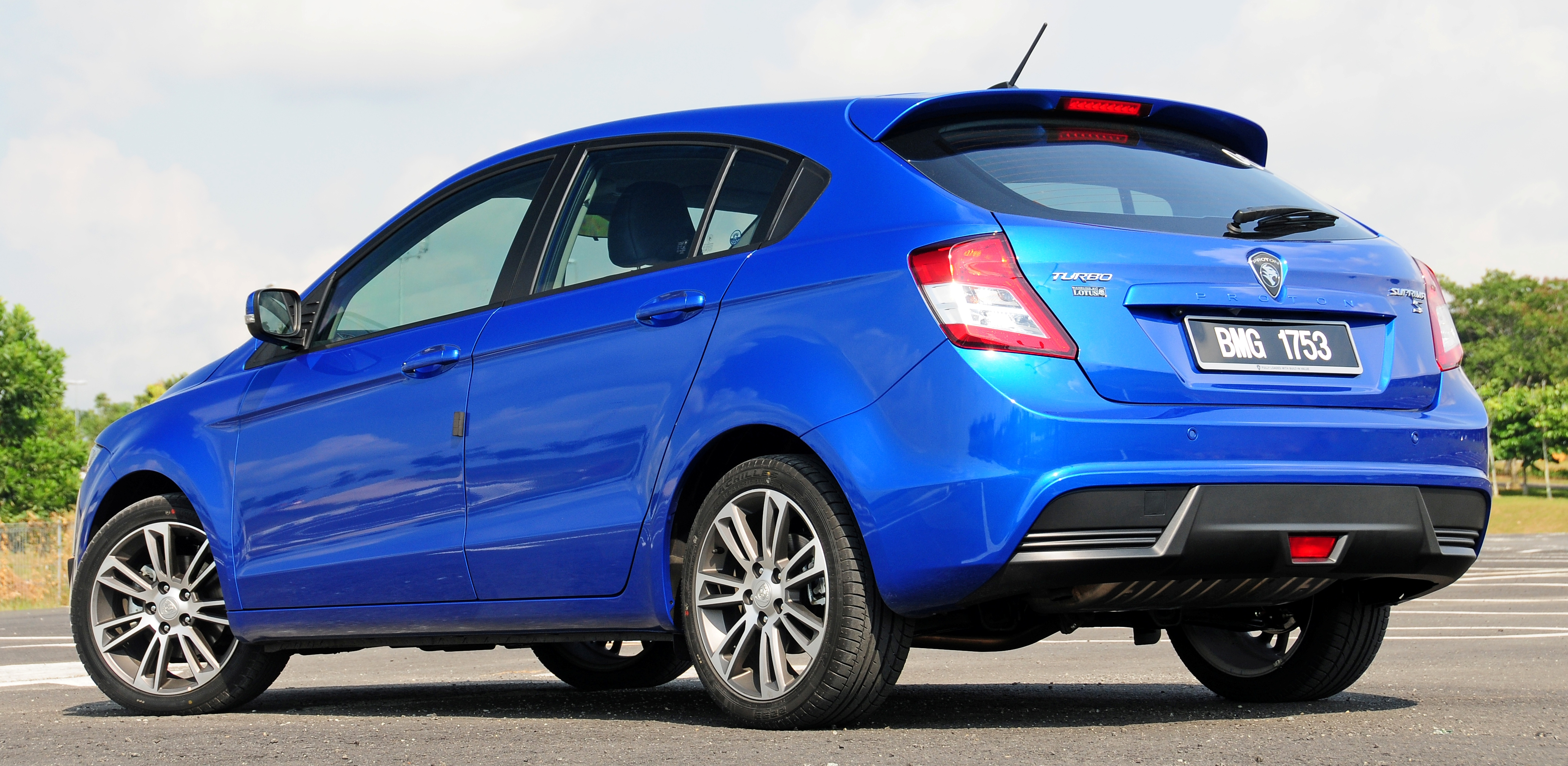 2013 Proton Suprima S in Malaysia.Colour : Atlantic BlueDesigned & Manufactured in Malaysia